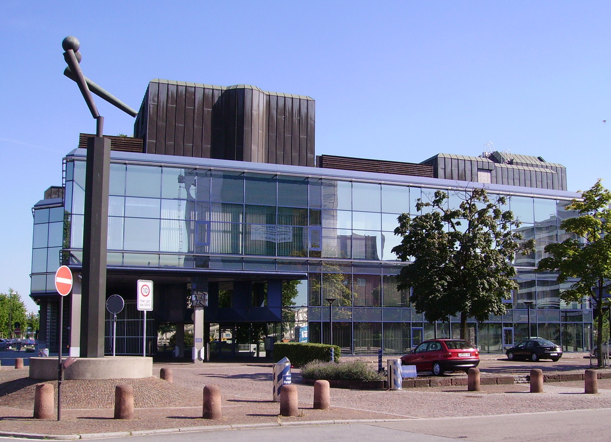 bank building in Ludwigshafen, Germany